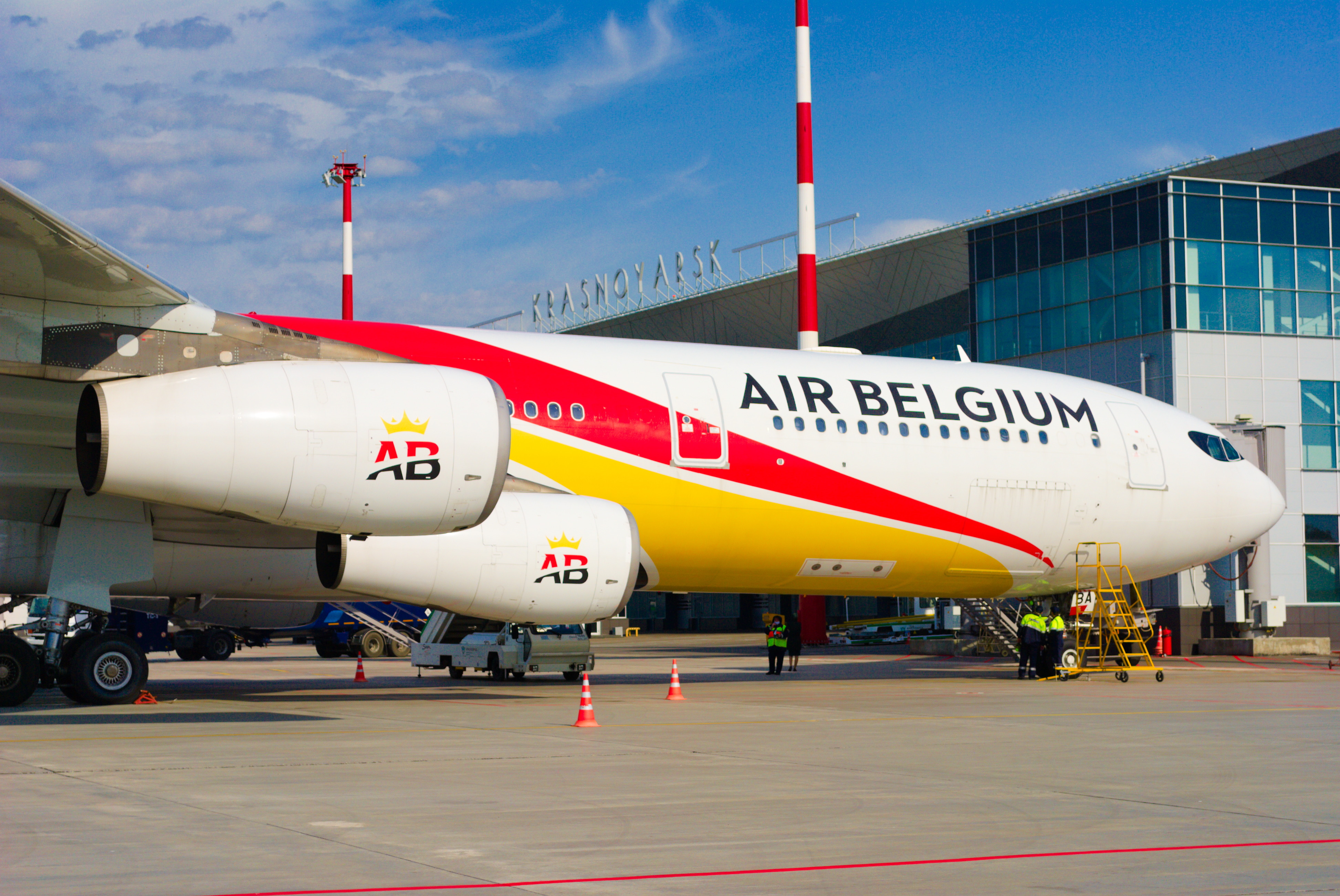 Air Belgium Airbus A340 (OO-ABA) in front of Krasnoyarsk airport (KJA - UNKL) 2020.05.11